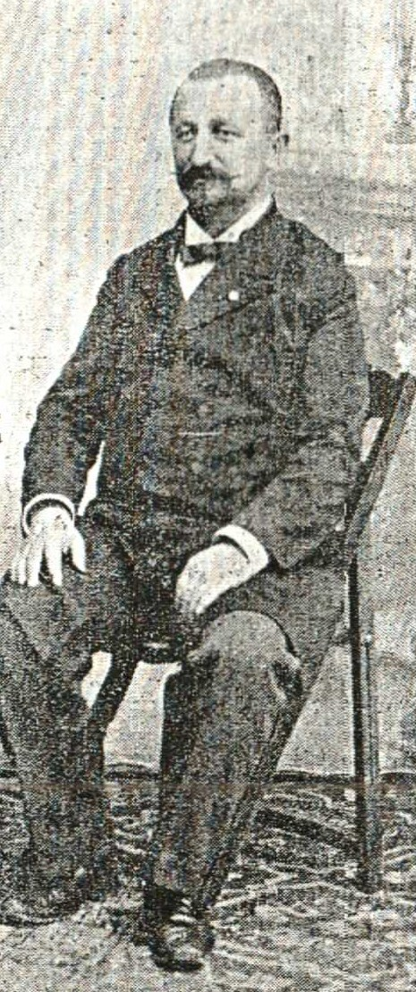 Jovan Cirkovic